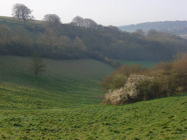 Pilot Hill In the combe on the south side of the hill and looking up to the wooded scarp beyond.